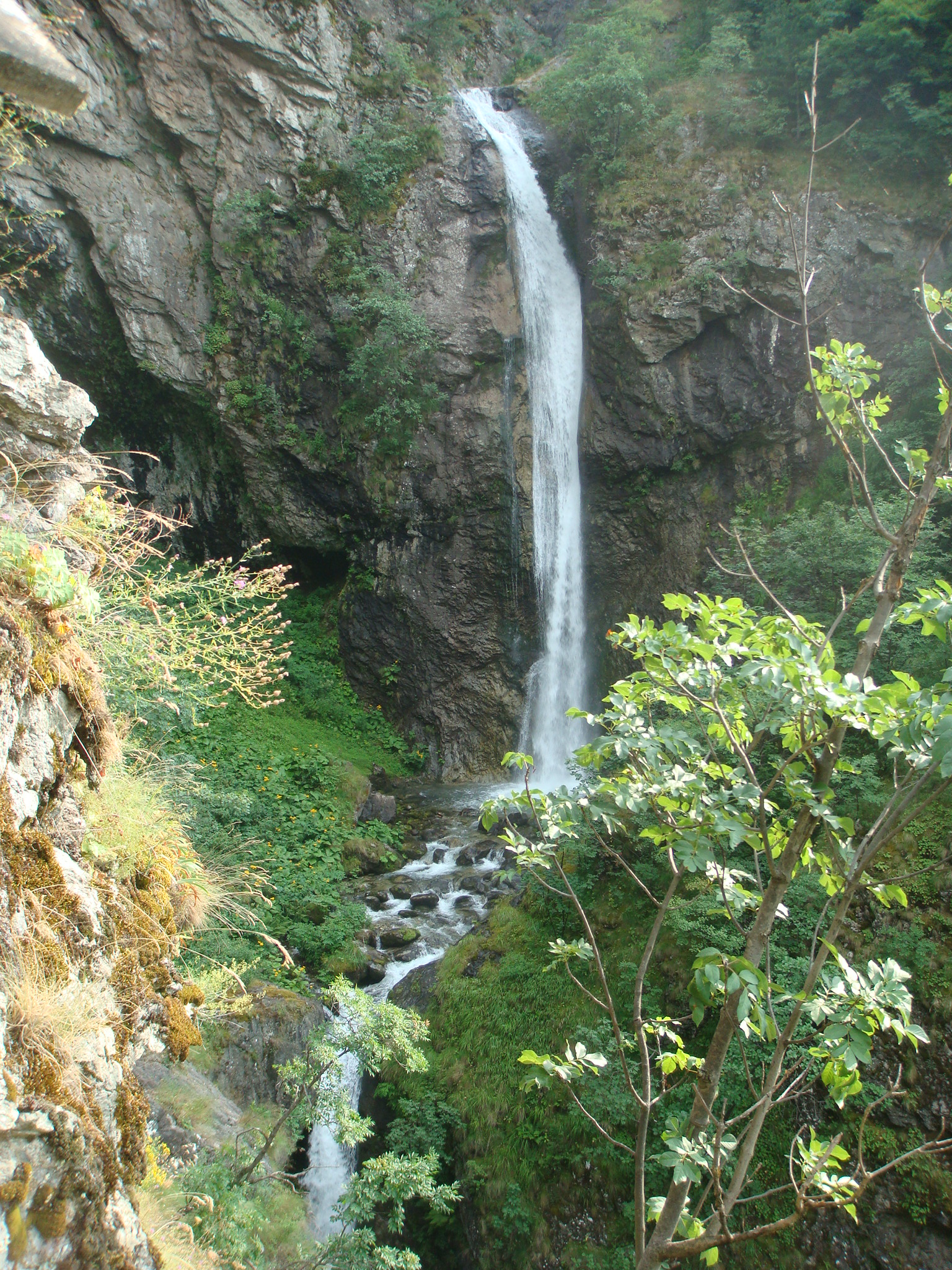 Ovcharchenski Waterfall in Rila Mountain